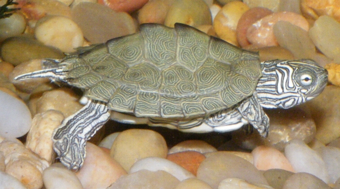 Photograph of my pet Cagle's map turtle (temperature-sexed male) a few weeks after hatching.